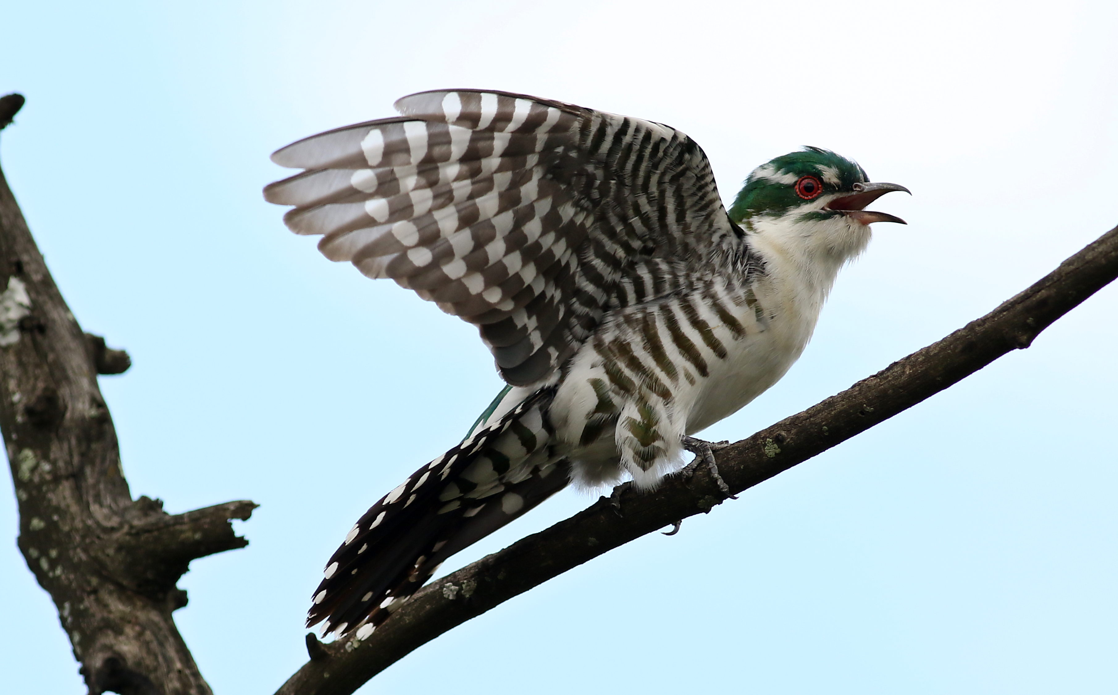 Diederik cuckoo, Chrysococcyx caprius (male), at Rietvlei Nature Reserve, Gauteng, South Africa